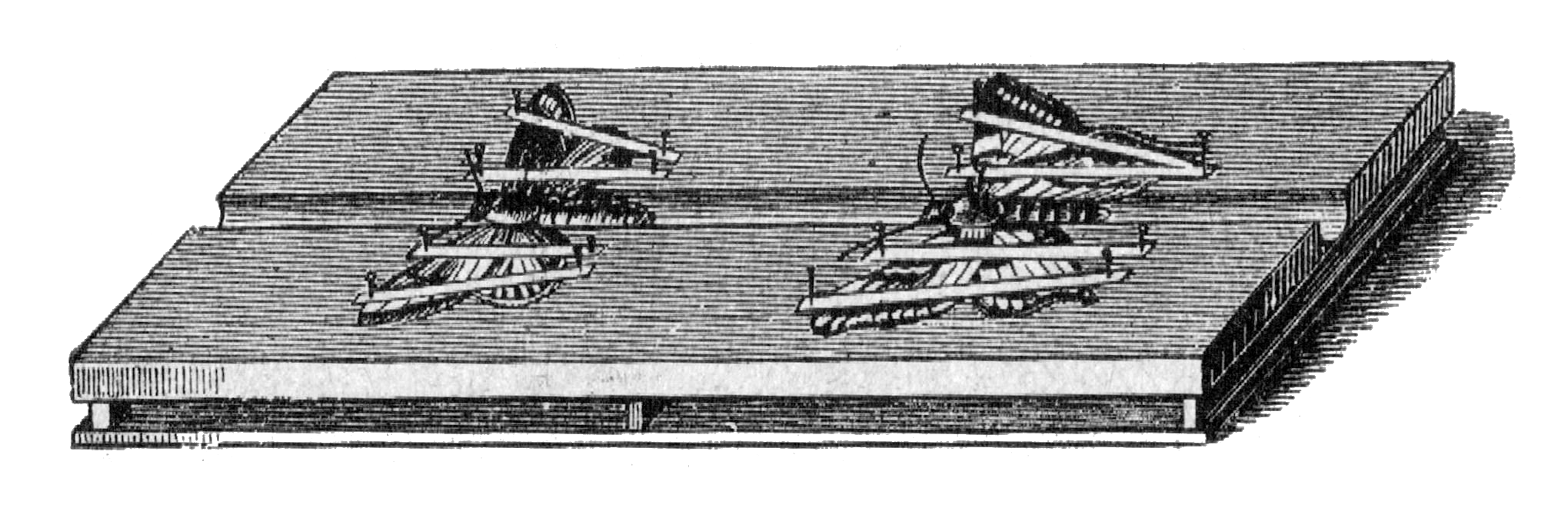 Image of Van vlinders, bloemen en vogels. (5th. ed., p. 89) – pinning butterflies